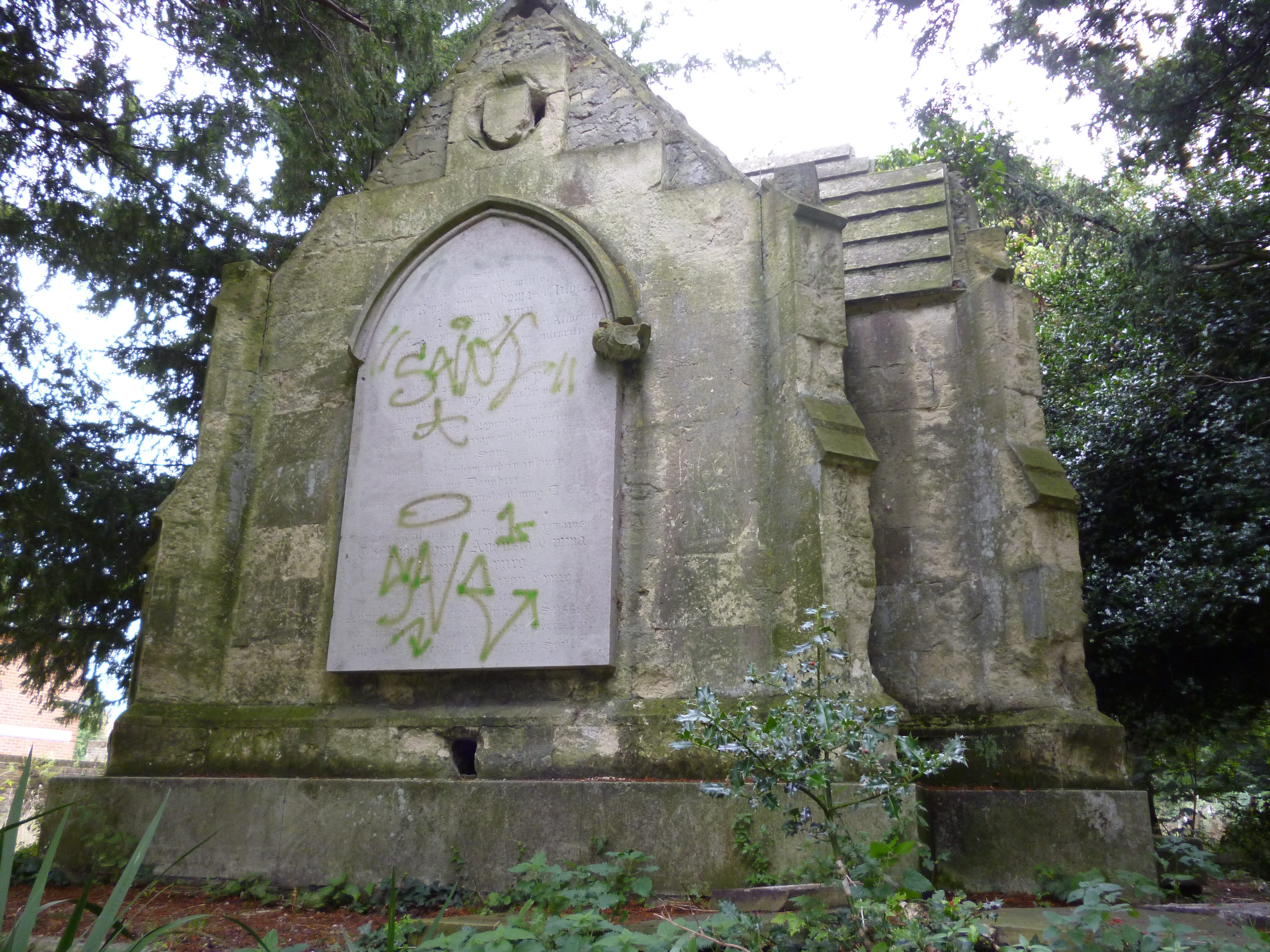 d'Este mausoleum in St Laurence's parish churchyard, Ramsgate, Kent